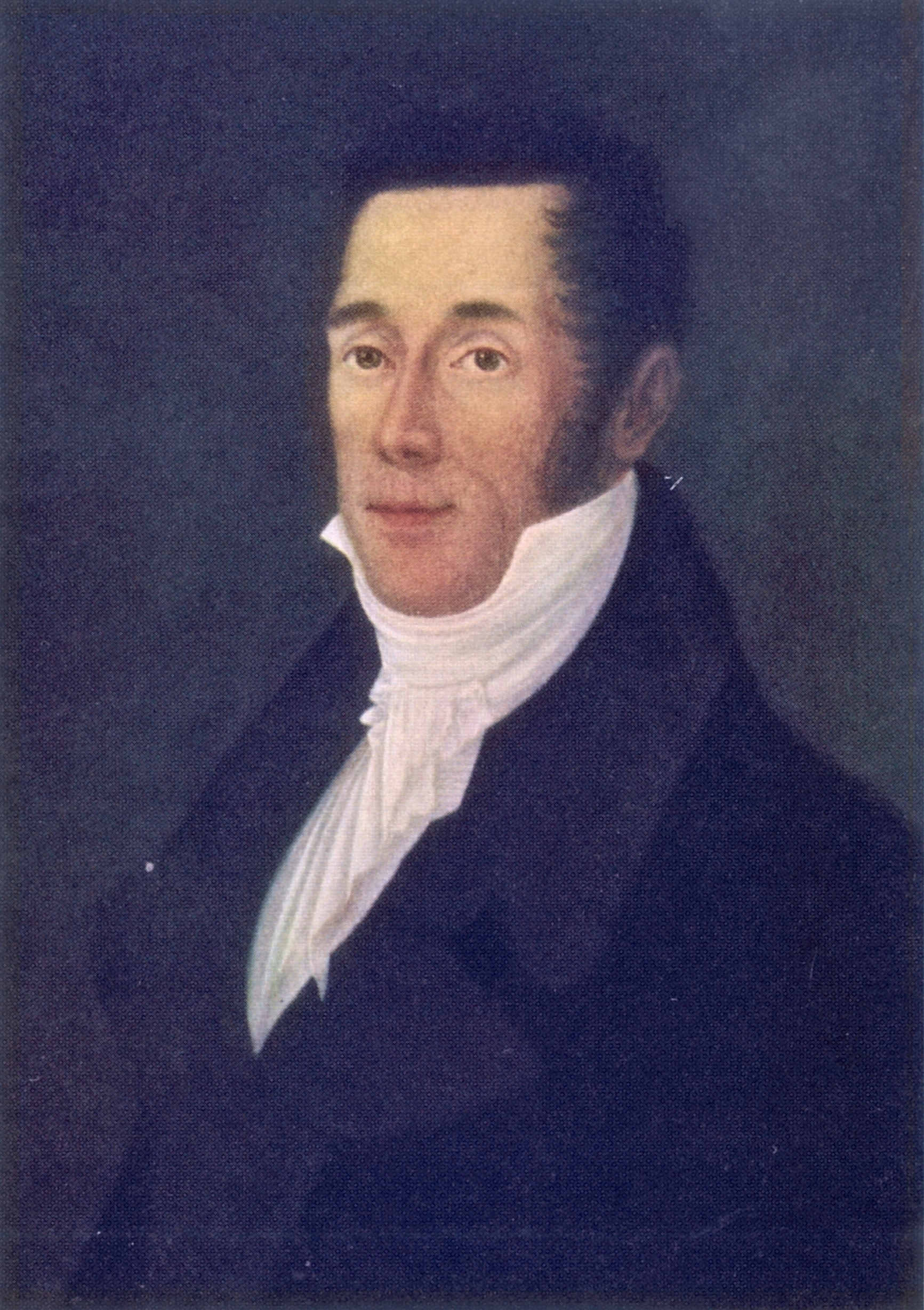 Contemporary portrait of Robert Miles Sloman